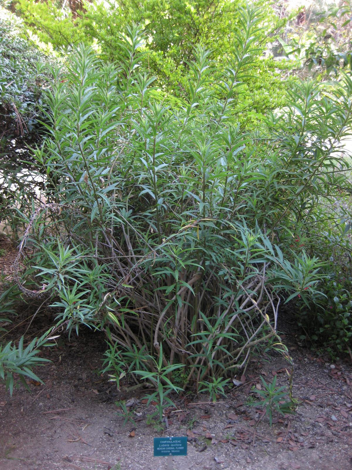 The mexican cardinal flower (Lobelia laxiflora). Photographed at Mildred E. Mathias Botanical Garden at UCLA, Westwood, (Los Angeles, California) - in November.